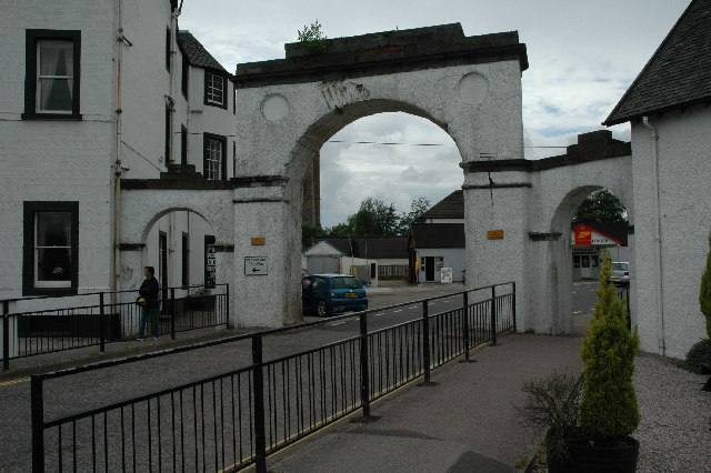 Archway, Inveraray. This is an archway over the A819 on the way out of Inveraray. It's a bit scary watching the coaches swing around the junction here...